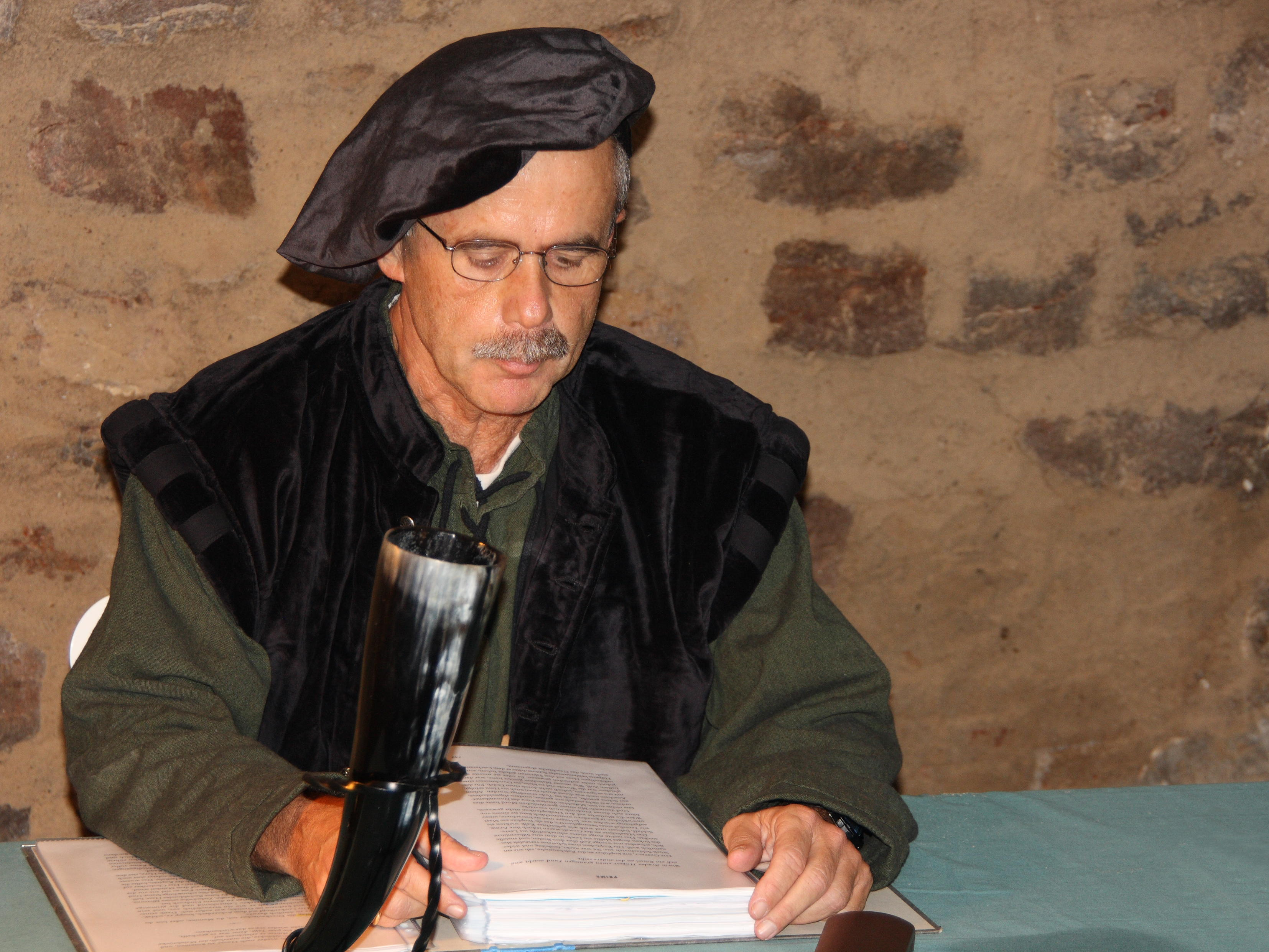 Author of historical crime novels Uwe Klausner at a reading by candle light in the Deutschordensmuseum Bad Mergentheim arranged by Buchhandlung Moritz und Lux.